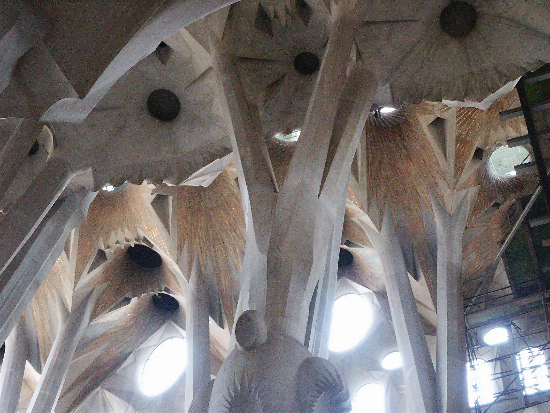 Arches within La Sagrada Familia, picture taken summer, 2006